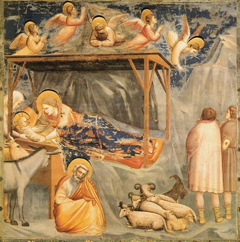 Life of the Virgin